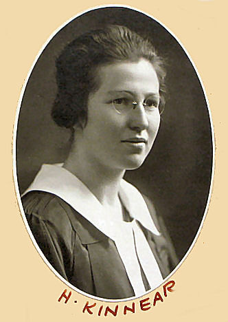 Date: 1920 Photographer: Park Bros Reference code: P1323